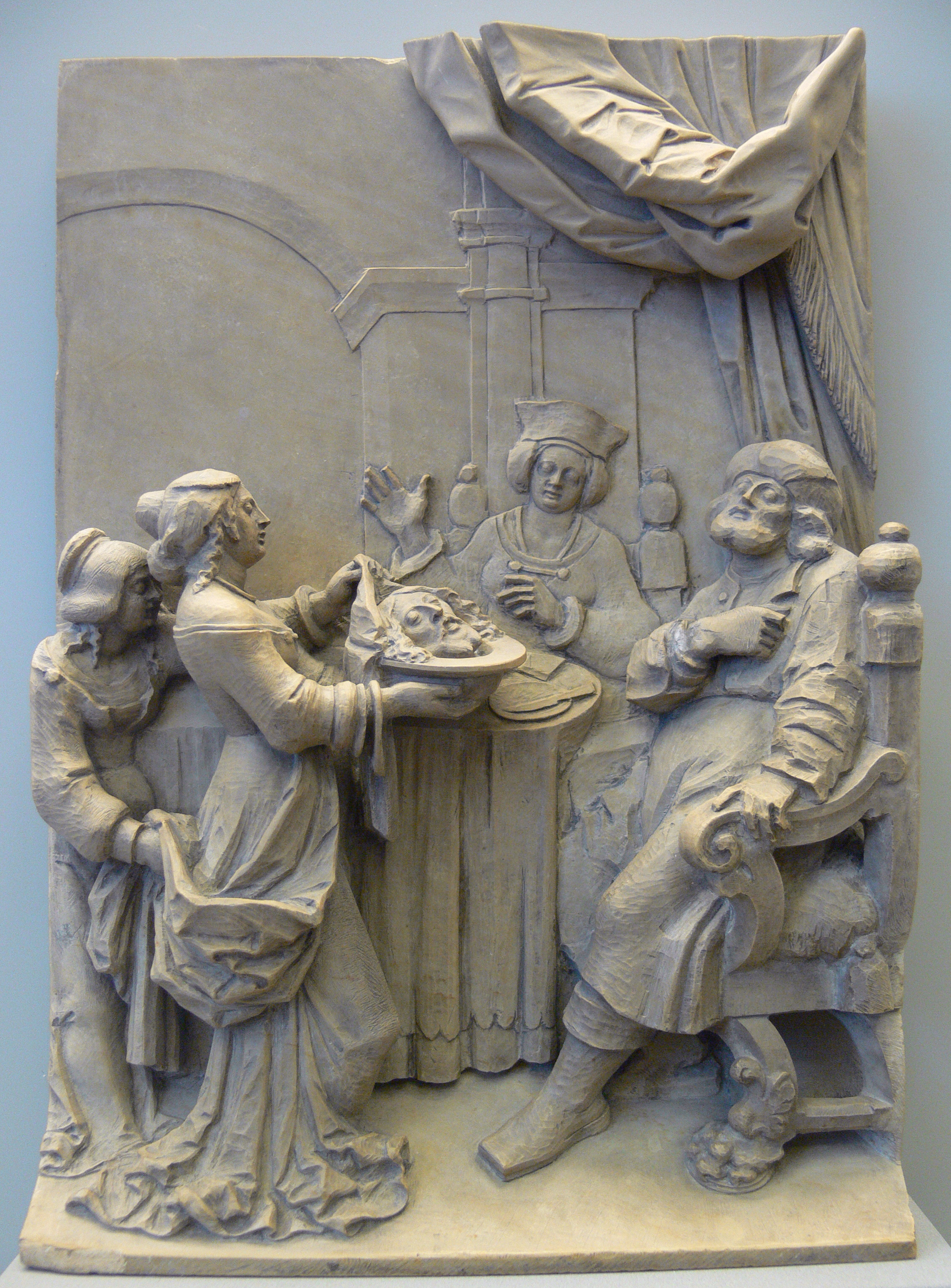 Georg Schweigger (workshop): Salome shows the head of St. John the Baptist to Herod Antipas, Nuremberg c. 1648 (?), Solnhofen limestone. Skulpturensammlung (inv. no. 833, acquired in 1835, Nagler collection), Bode-Museum Berlin.